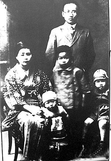 Guo Muoruo's family, with wife Tomiko Satō中文（中国大陆）: 郭沫若的家庭